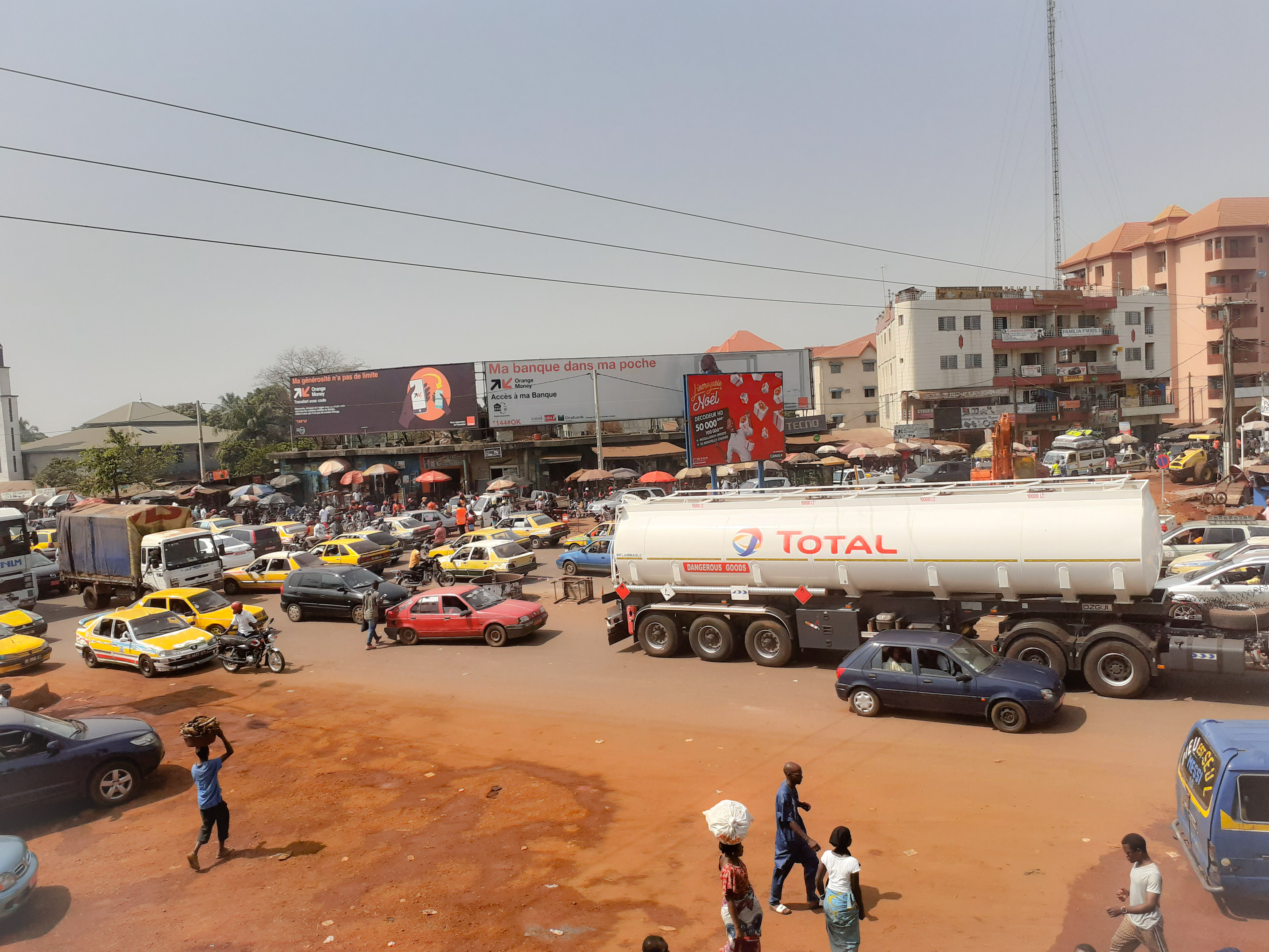 This is an image with the theme "Africa on the Move or Transport" from: Guinea